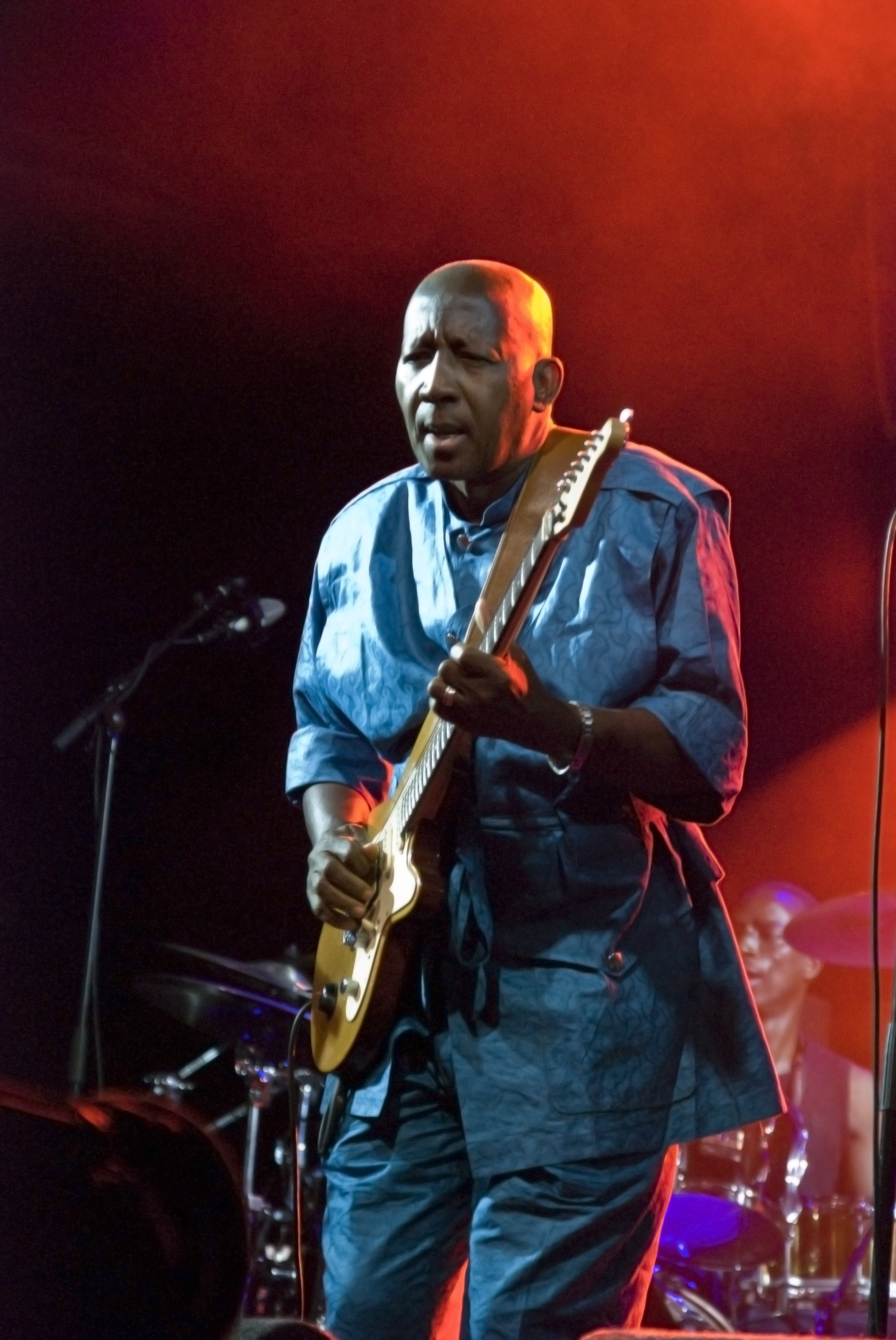 Sekou Bembeya Diabaté also known as "Diamond Fingers" is the guitarist of Bembeya Jazz, a flagship music group from Guinea Conakry.